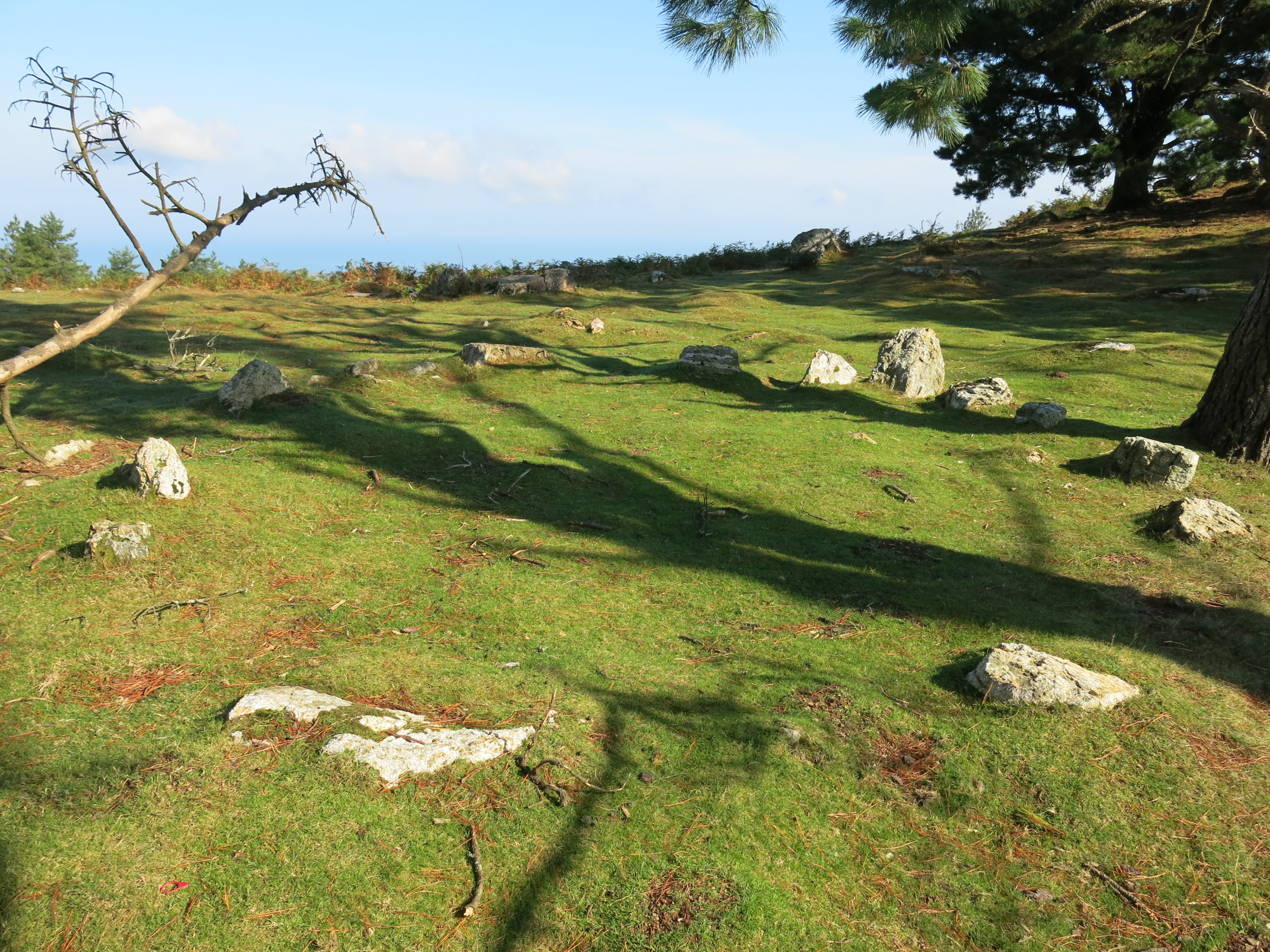 Cromlech of the Ibardin pass.)